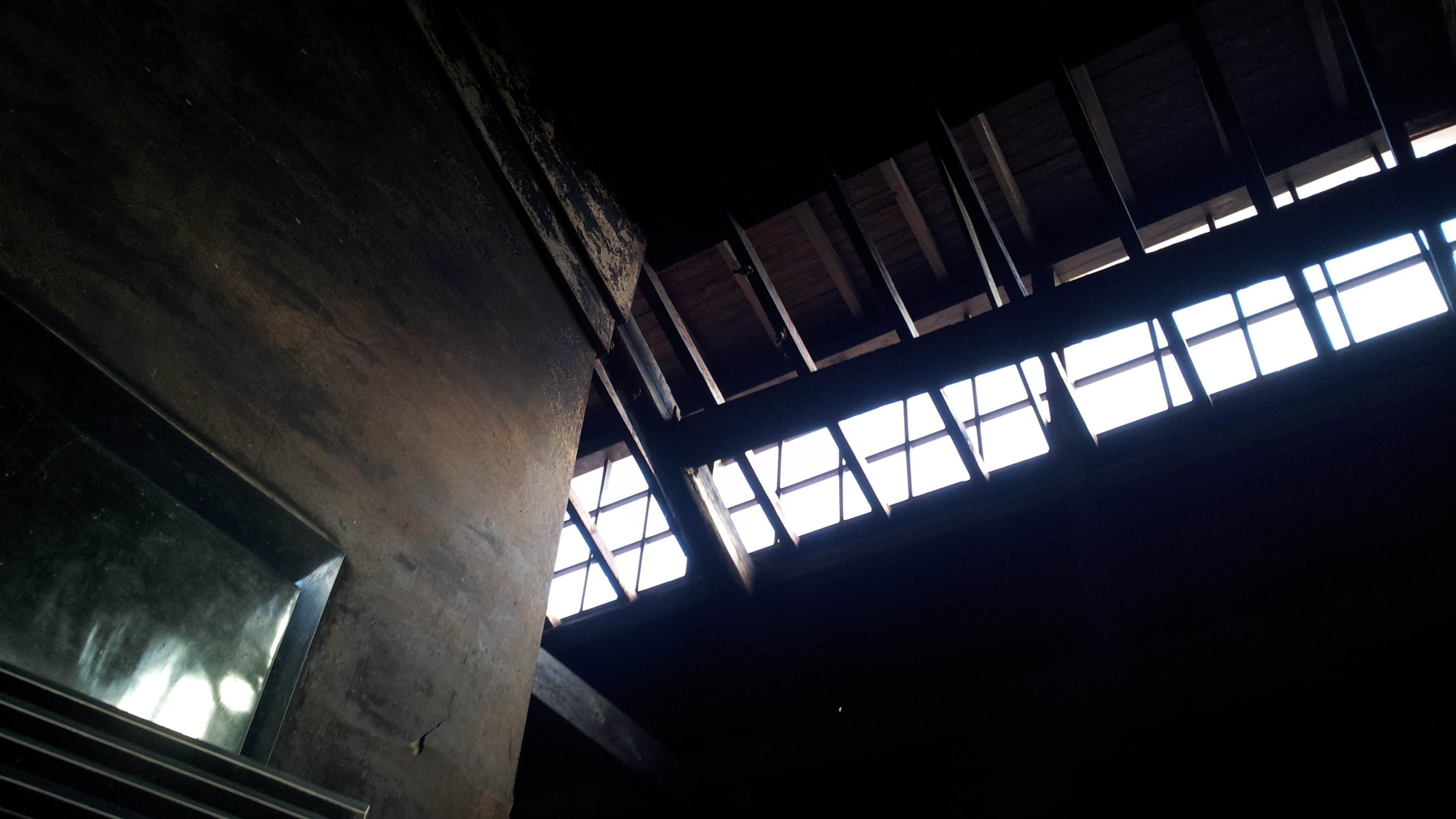 Inside the warehouse of the Masuda Tourism and Product Sales Center "Kura no Eki"